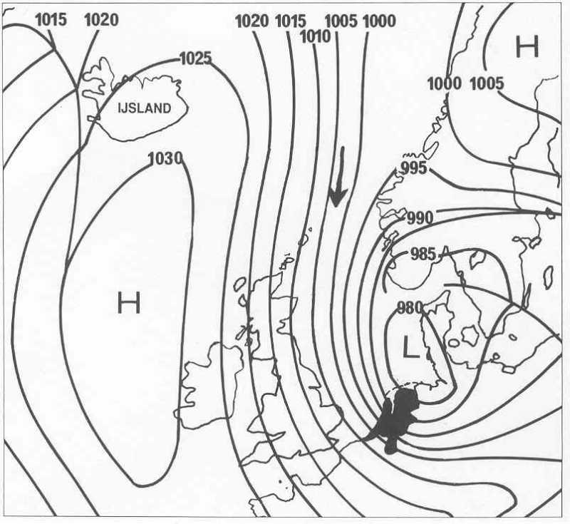 Example Weather Map of Western Europe with the Netherlands highlighted